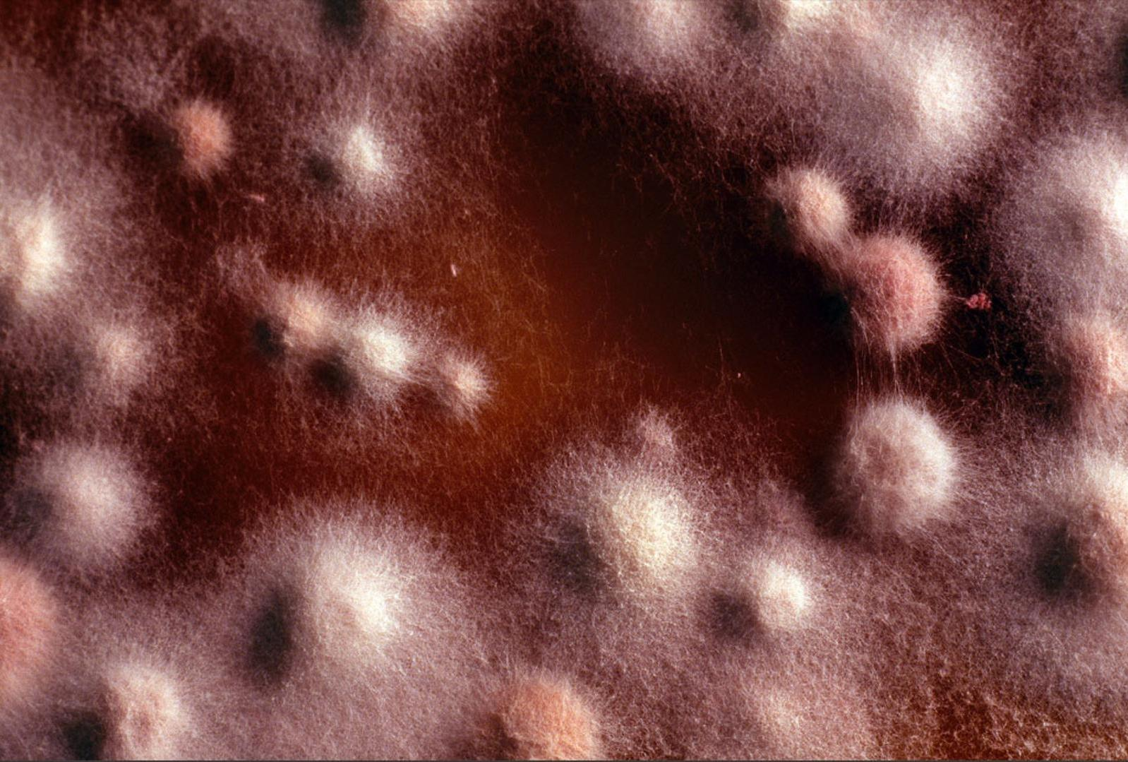 This is a microscopic view of an atlehete's foot fungus.